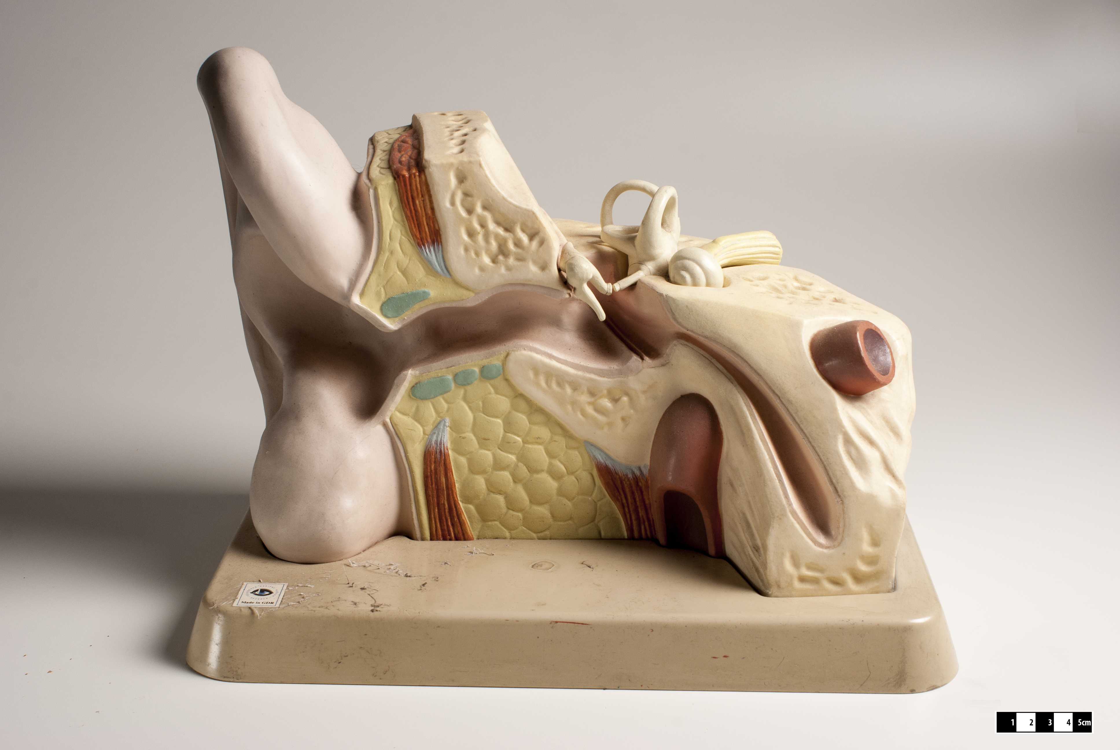 Human ear. Teaching model representing different parts of the auditory pavilion on display at the Museum of Veterinary Anatomy, FMVZ USP. This file was published as the result of a partnership between the Museum of Veterinary Anatomy FMVZ USP, the RIDC NeuroMat and the Wikimedia Community User Group Brasil. This GLAM project is reported. Photography: Museum of Veterinary Anatomy FMVZ USP. Author: Wagner Souza e Silva.